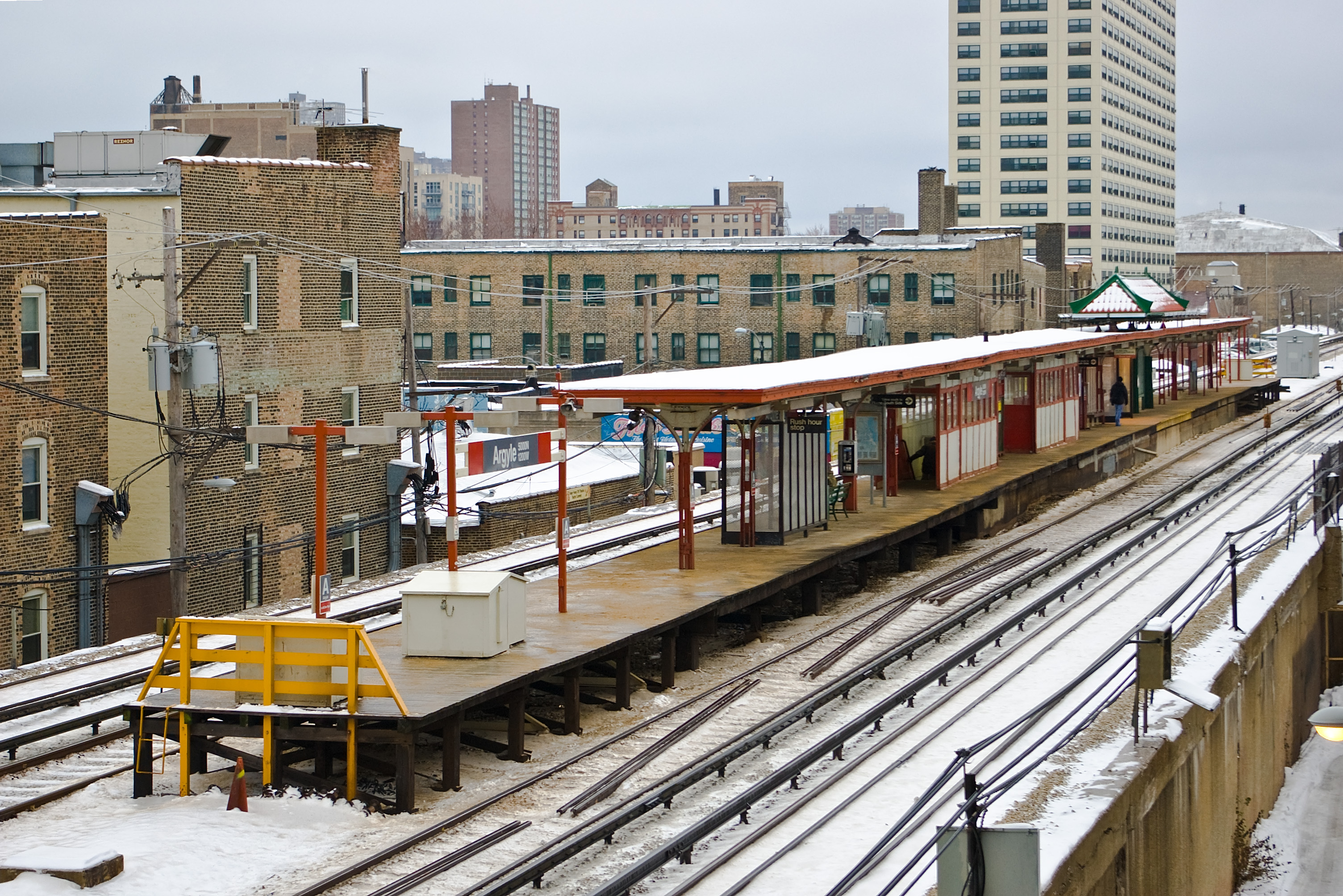 Arglye 'L' station on the CTA Red Line in Chicago, Illinois